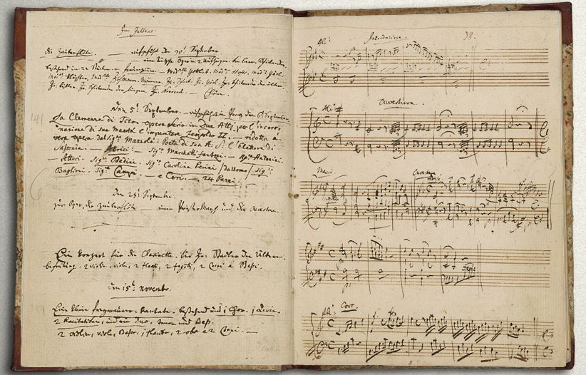 Two pages from the thematic catalogue of Wolfgang Amadeus Mozart (BL Zweig MS 63, f. 28v-29r)